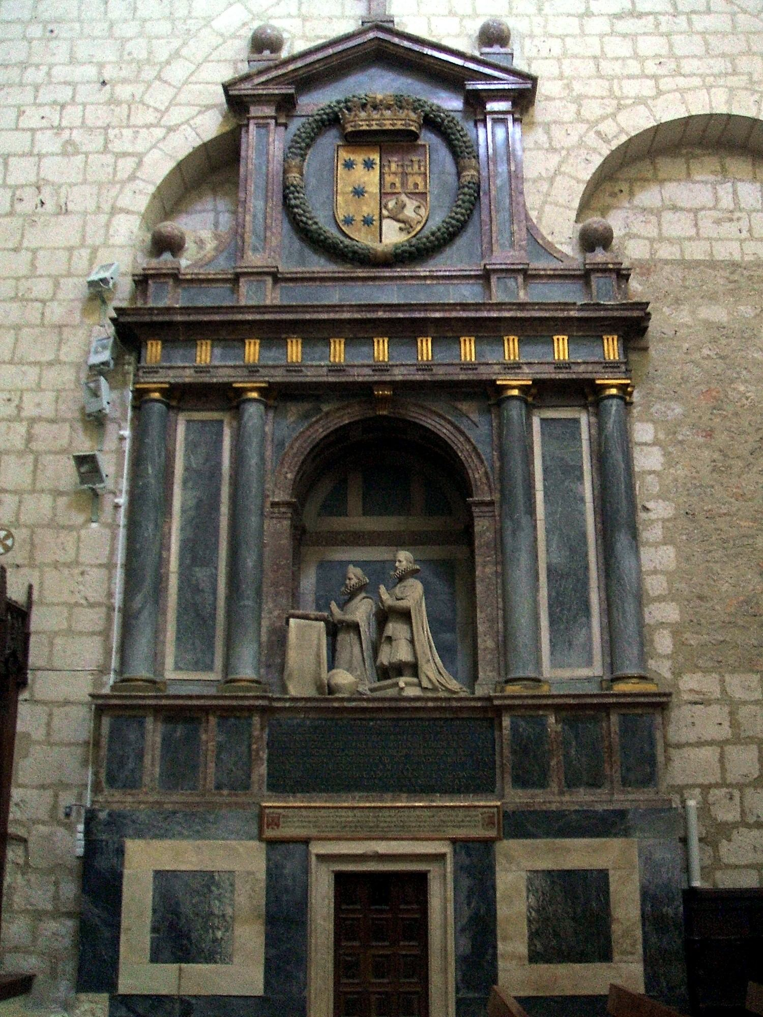 Sepulcro protobarroco de los terceros Marqueses de Poza, en la Capilla Mayor de la iglesia del Convento de San Pablo de Palencia, España